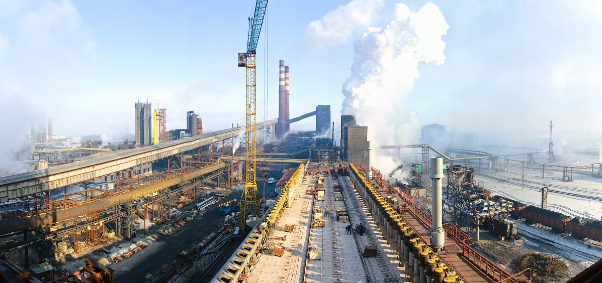 rettytyry